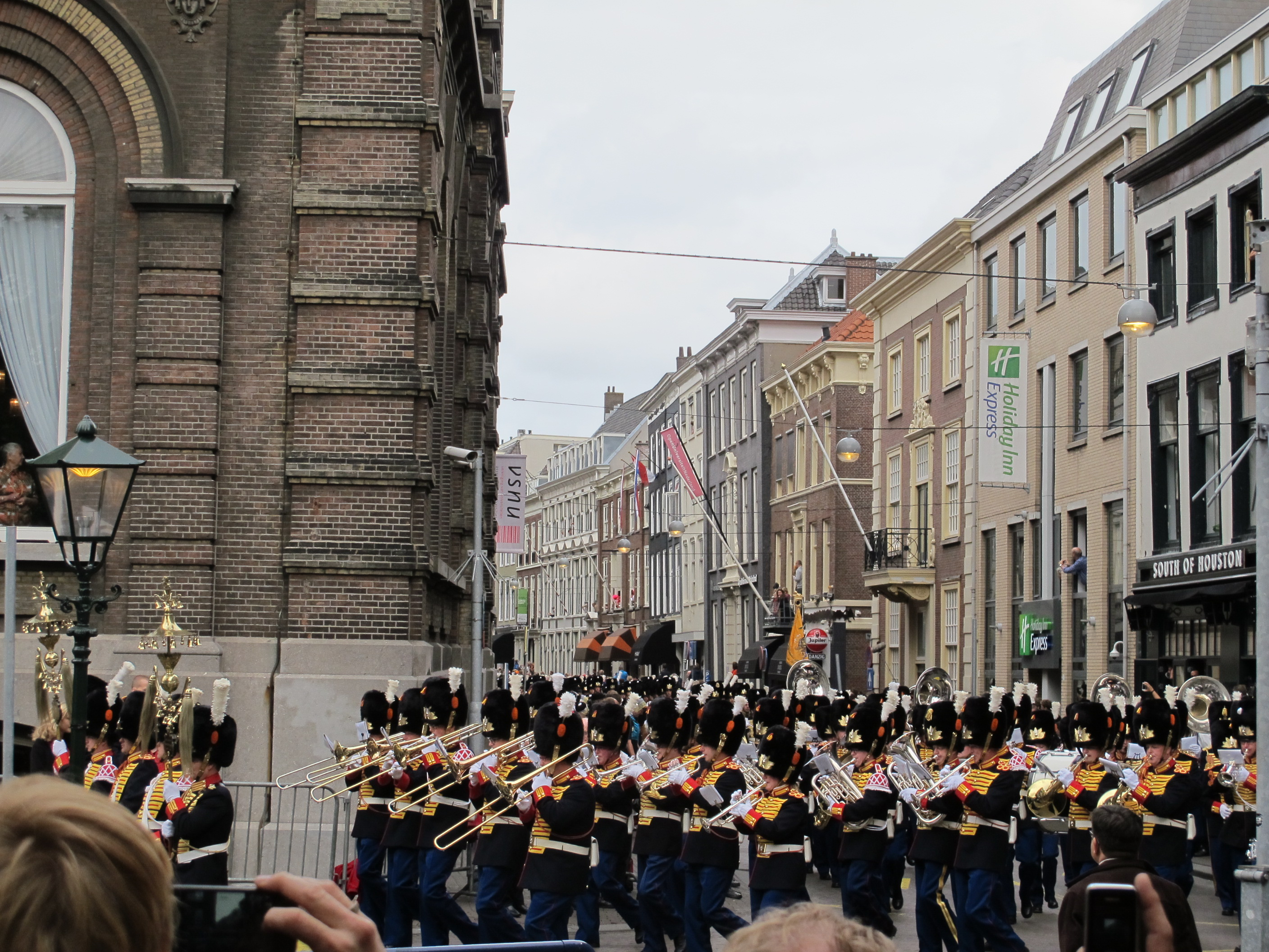 Prinsjesdag 2013 - Royal Tour at Plein, The Hague